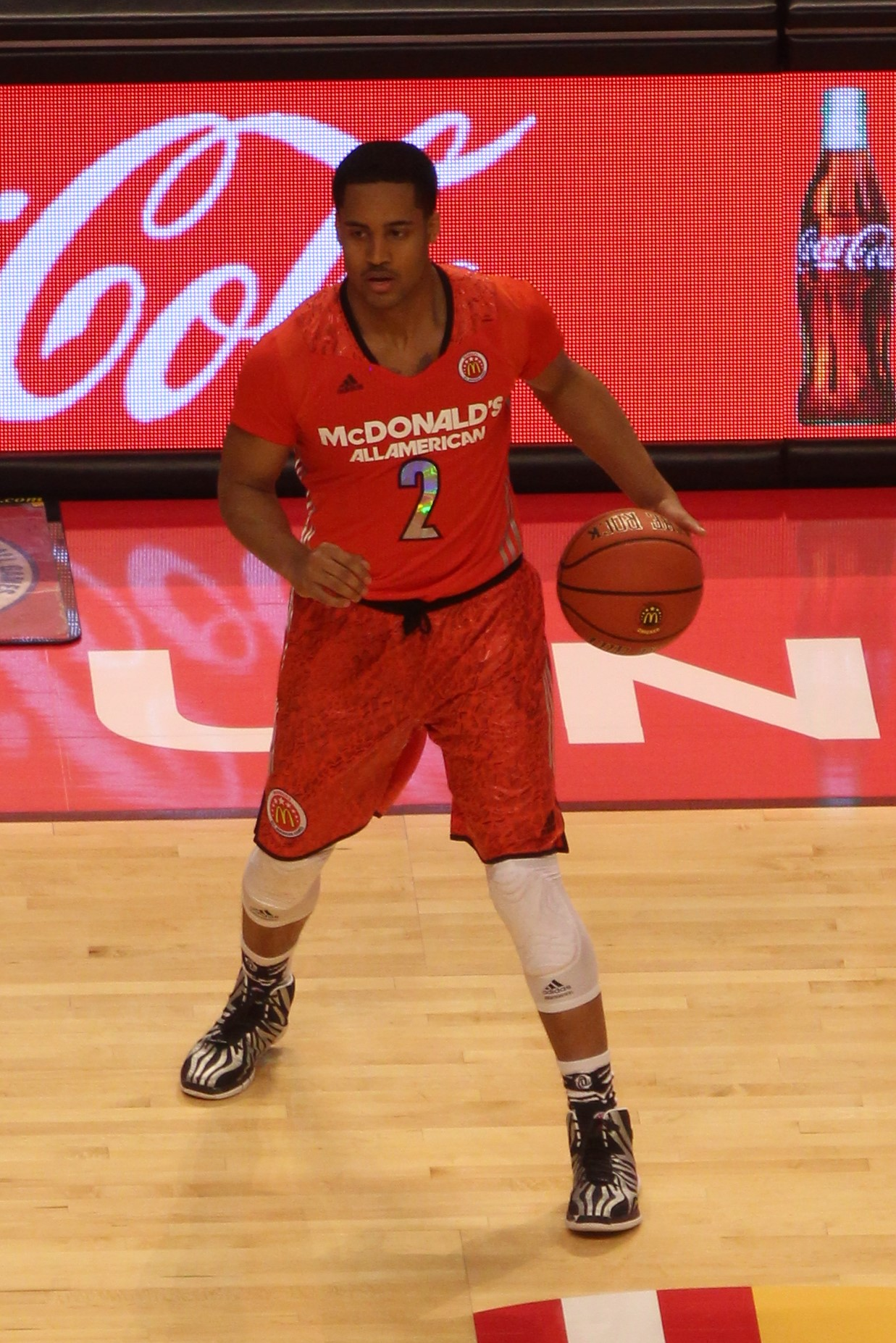 Melo Trimble in the w:2014 McDonald's All-American Boys Game